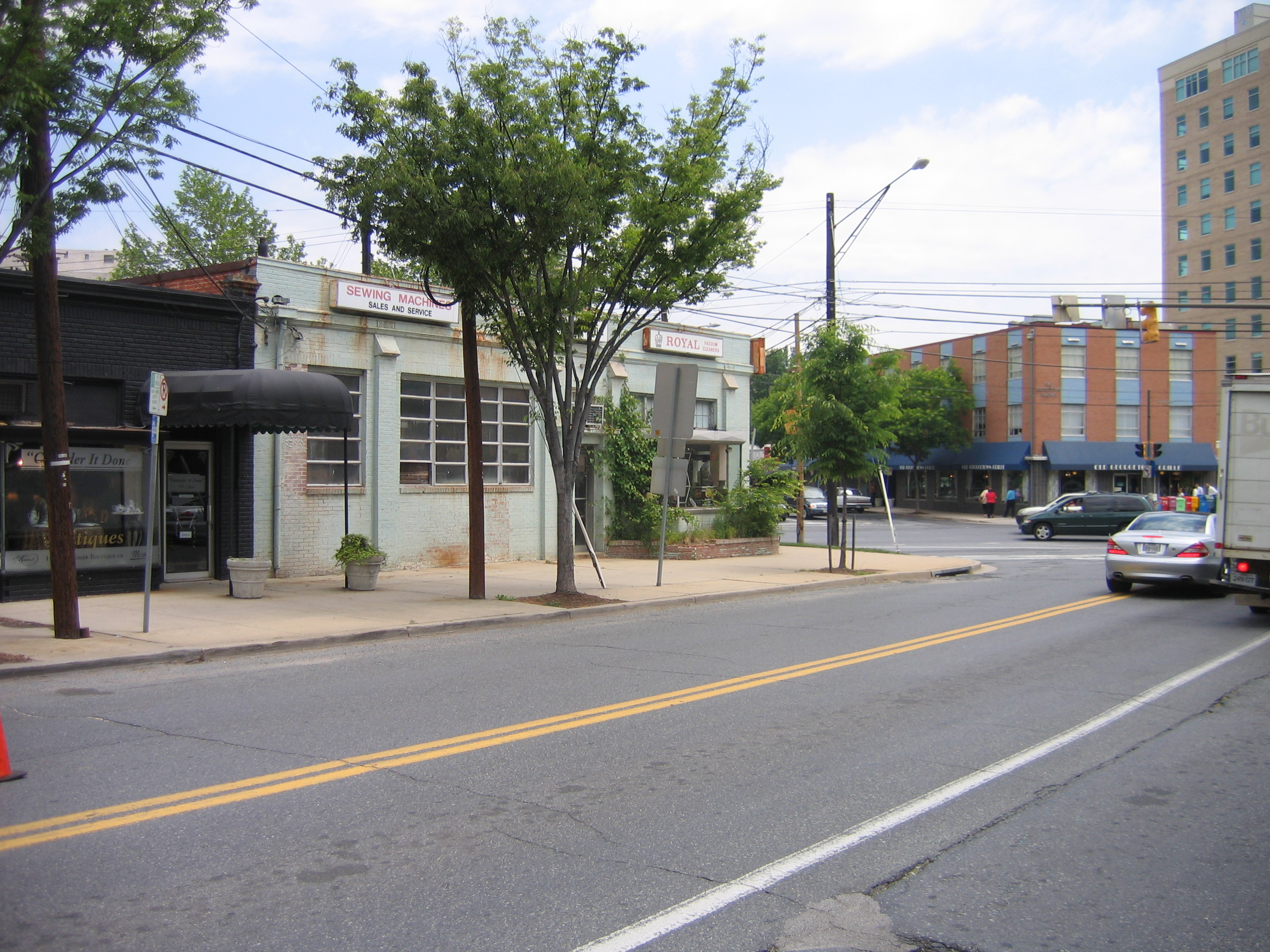 MD 187 (Old Georgetown Road) at MD 188 (Wilson Lane) / Arlington Road / St. Elmo Avenue, Bethesda, MD, USA